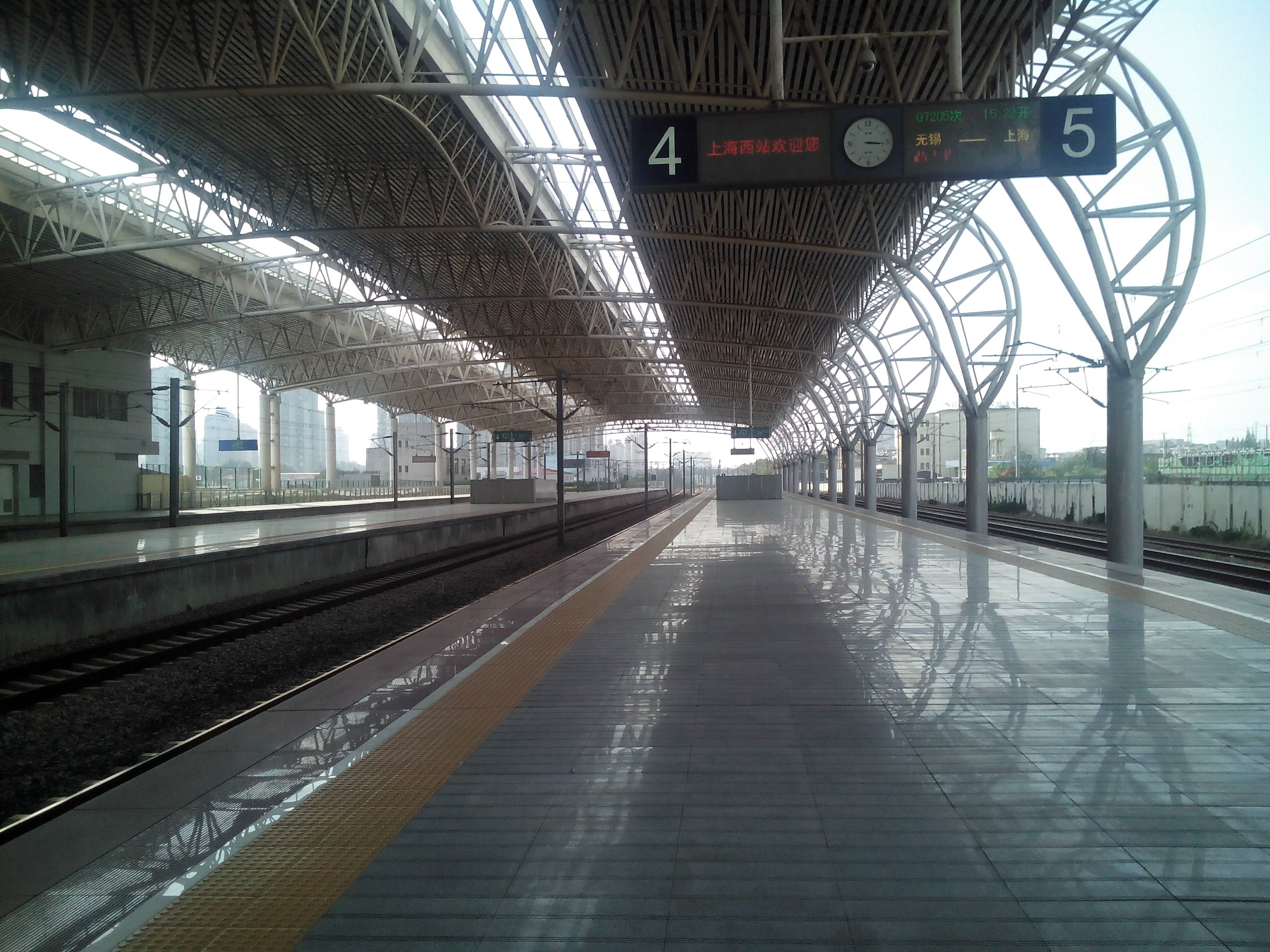 201410 Platform 4,5 of Shanghaixi Railway Station